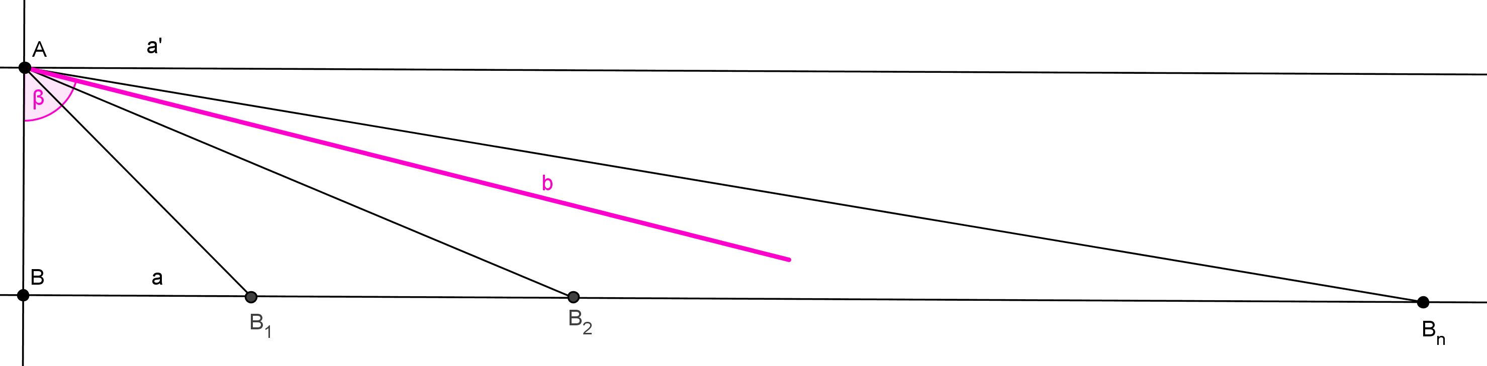 First Legendre's theorem